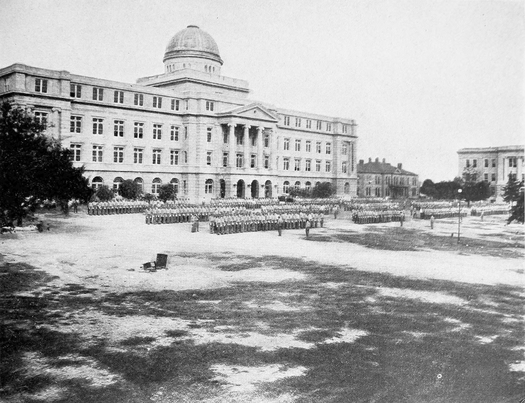 Agricultural and Mechanical College of Texas, College Station, Texas. Identifier: bookoftexa00bene Title: Book of Texas Year: 1916 (1910s) Authors: Benedict, Harry Yandell, 1869-1937 Lomax, John A. (John Avery), 1867-1948 Subjects: Texas Texas -- Economic conditions Publisher: Garden City, N.Y. : Doubleday, Page Text Appearing Before Image: e University, the Agricultural and MechanicalCollege, the four State Normals for whites, the College ofIndustrial Arts, and the Prairie View Normal, are really apart of the system of public schools, this term is ordinarilyapplied only to the graded schools. These schools, from thehigh school down to the lowest primary grade, are under thesupervision of the State Superintendent of Public Instruction,a state officer of the same rank and salary ($2,500) as theState Treasurer, State Land Commissioner, State Comp-troller, etc., and, as are all these officers, elected by popularvote for a term of two years. In addition to the State Su-perintendents office force, other supervising officials, knownas county superintendents, are elected in each county con-taining 3,000 or more children of scholastic age. In othercounties the county judge performs the superintendentsfunctions. Although the duties of these officials are mainly those ofinterpreting the school laws or of acting in advisory and re- Text Appearing After Image: Main Building and Cadet Corps of Agricultural and MechanicalCollege, College Station, Texas